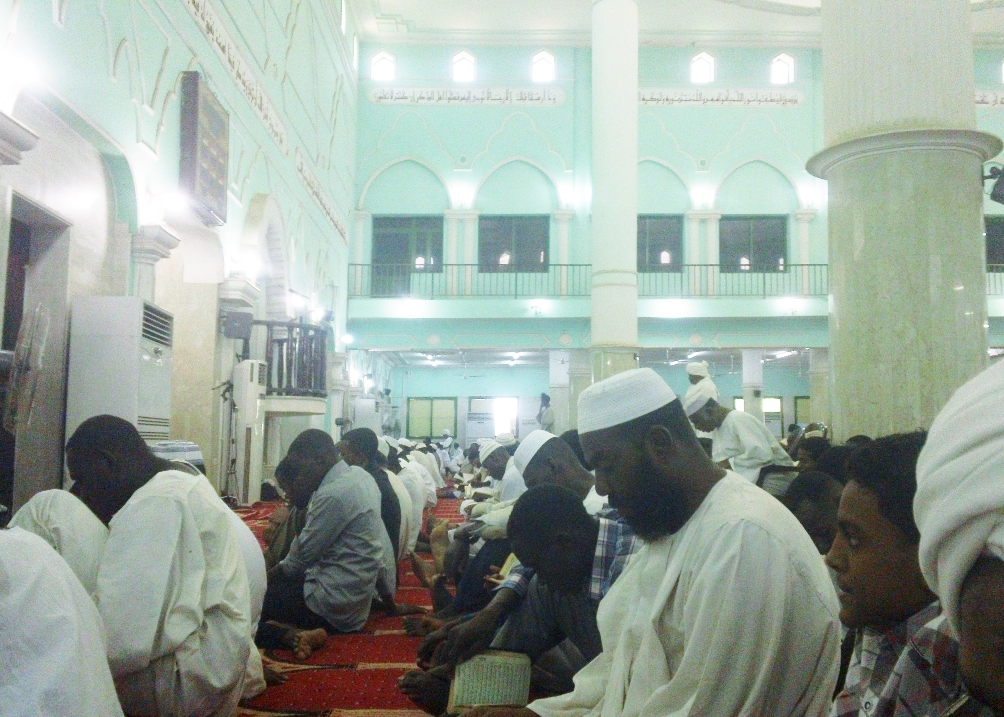 Shahid mosque Algomah prayers in Ramadan - Khartoum - Sudan